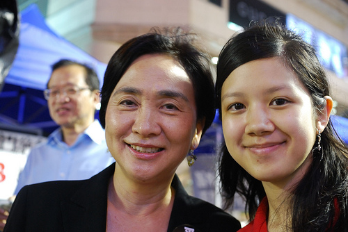 Emily Lau and Crystal Chow